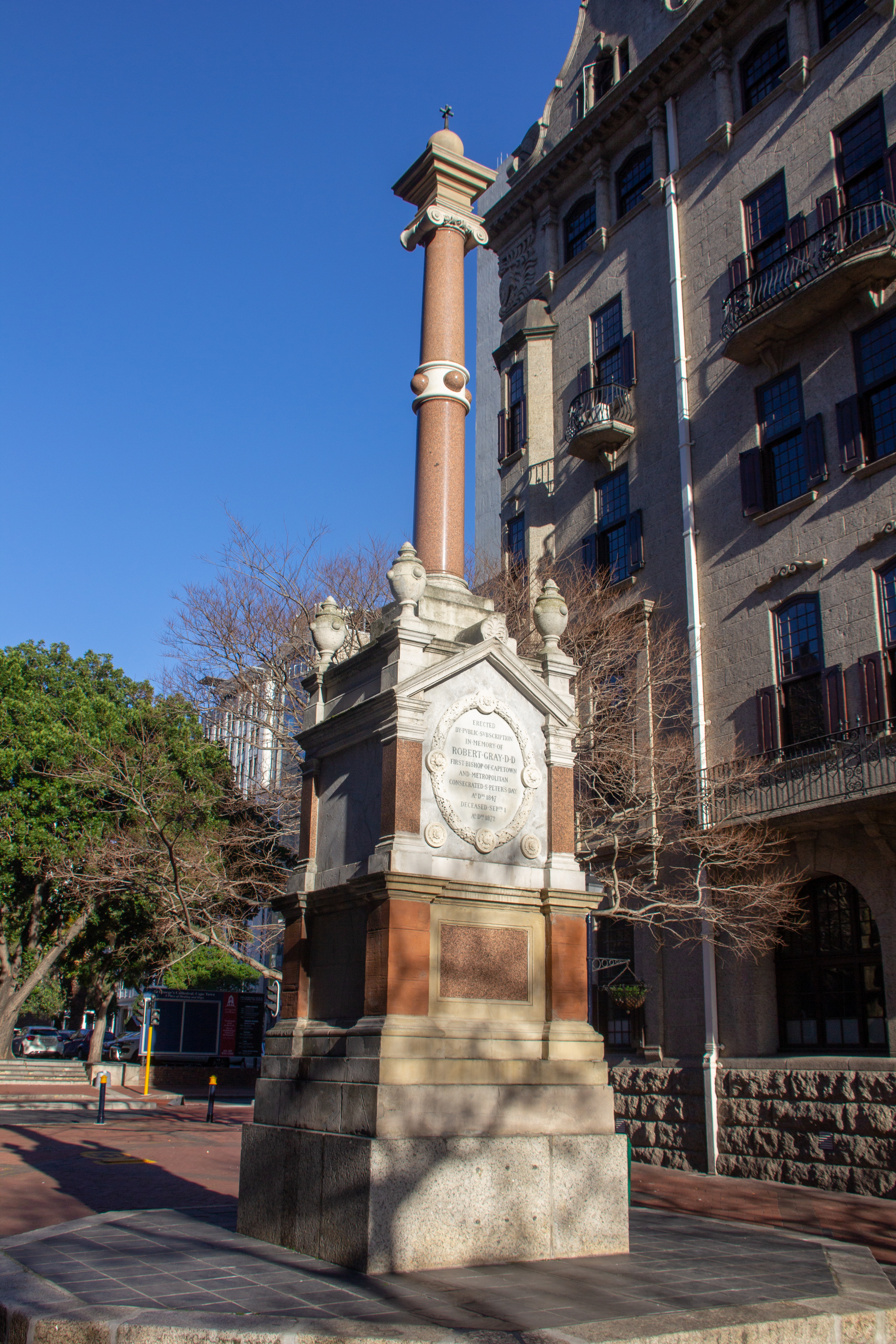 Cape Town